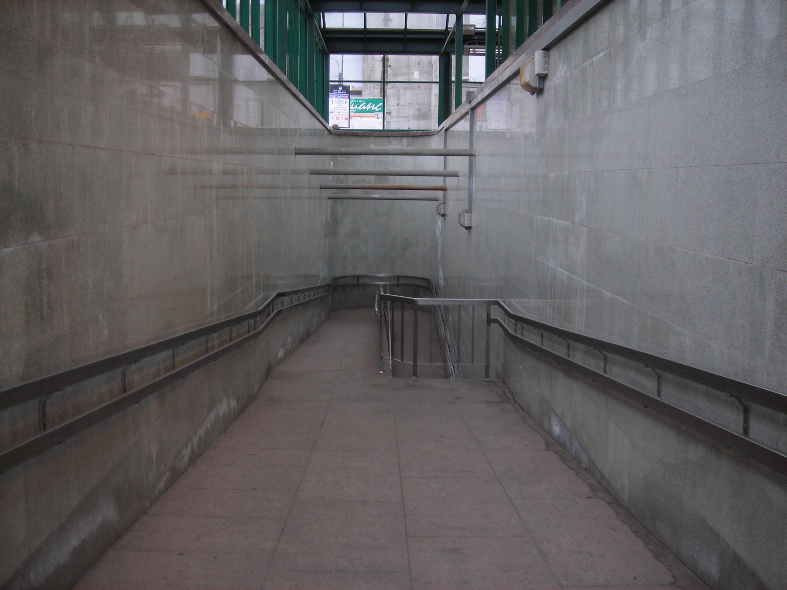 Entrance to the underground cross on metrostation «Komendantsky prospect», Spb